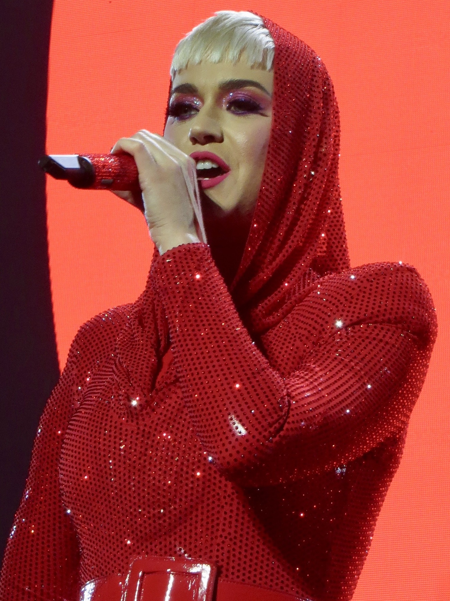 Katy Perry 1